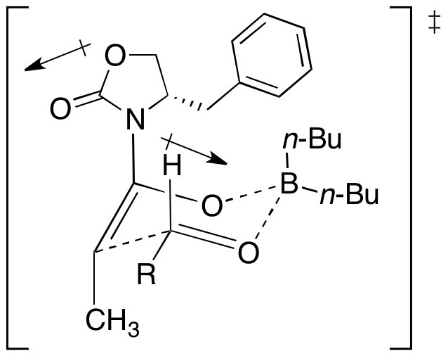 Chemdraw